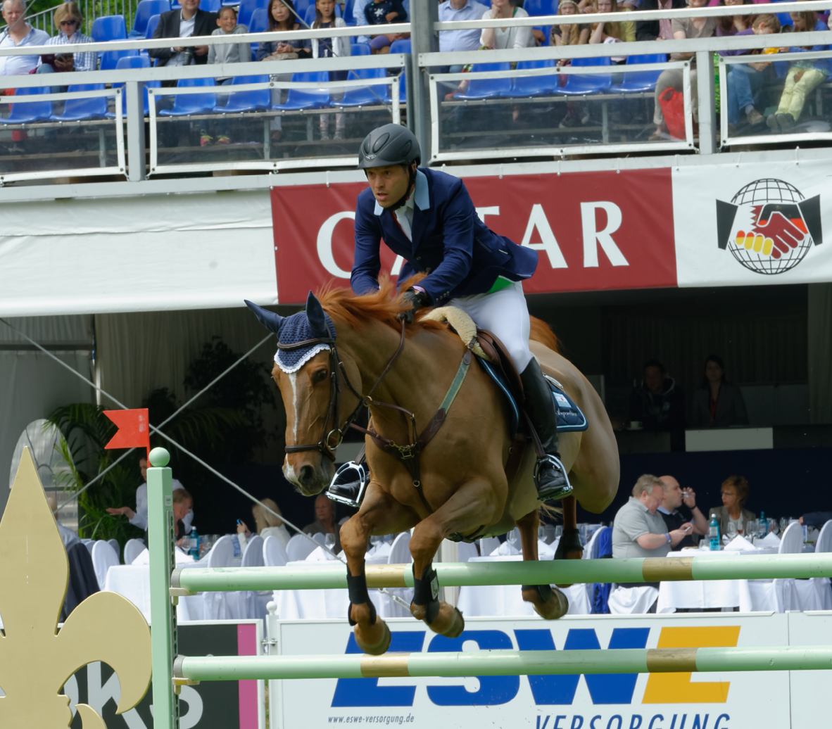 CSIYH* int. Springprüfung nach Strafpunkten und Zeit Internationales Pfingstturnier Wiesbaden 2015 The making of this document was supported by the Community-Budget of Wikimedia Germany.